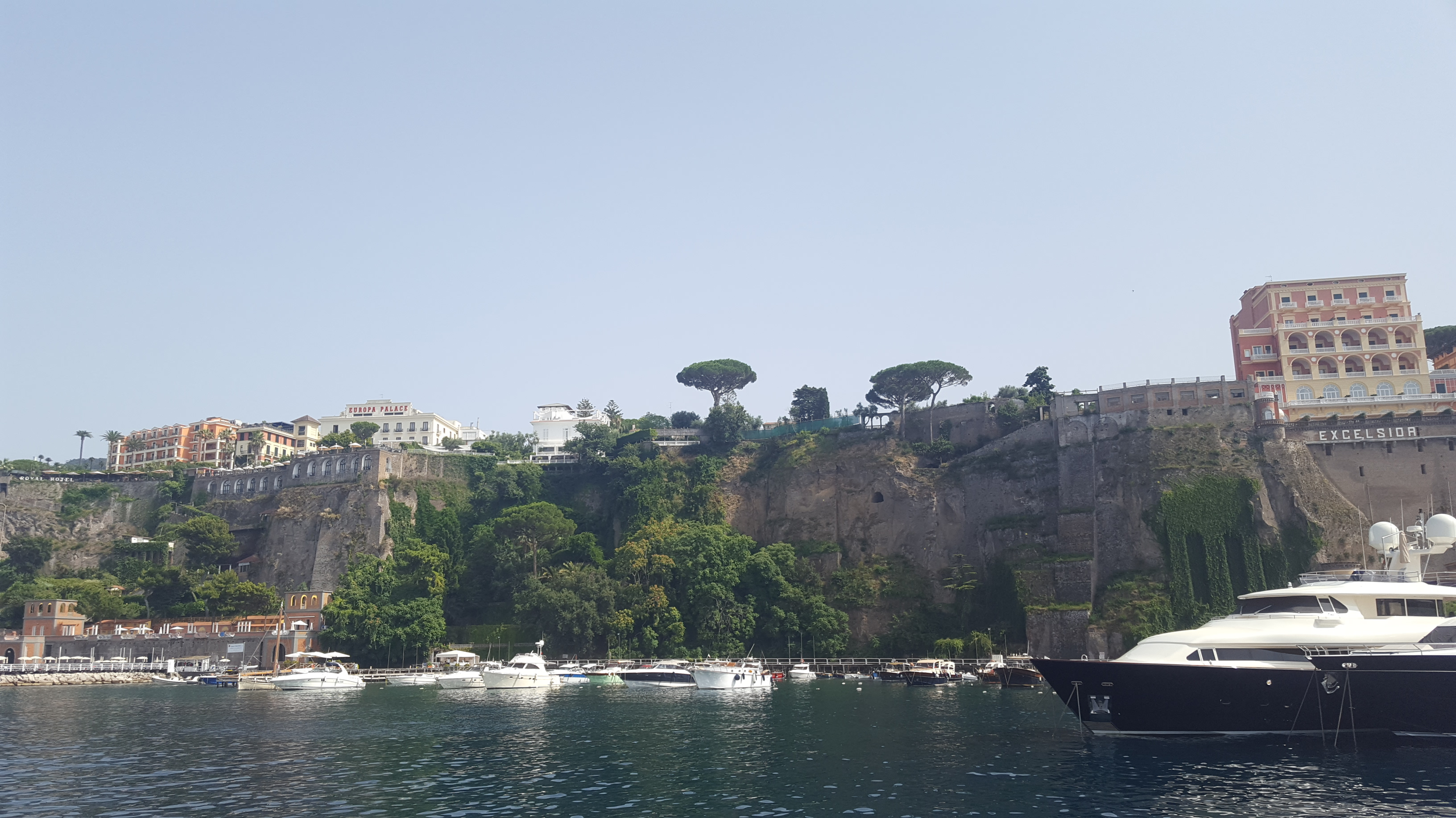 This is image was taken on the 14 July 2018, at 4 minutes past 3 in the late afternoon, in Sorrento, Italy. It overlooks the bay of Naples.